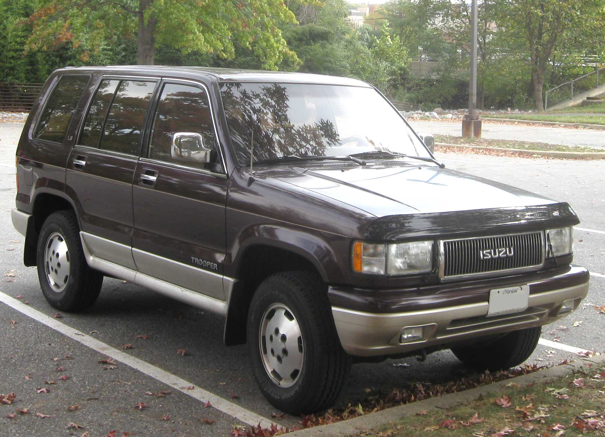 1992-1997 Isuzu Trooper photographed in College Park, Maryland, USA.